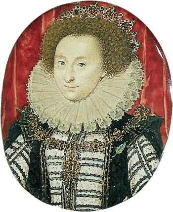 Portrait of Lettice Knollys, Countess of Leicester (1543–1634). Folger Shakespeare Library.